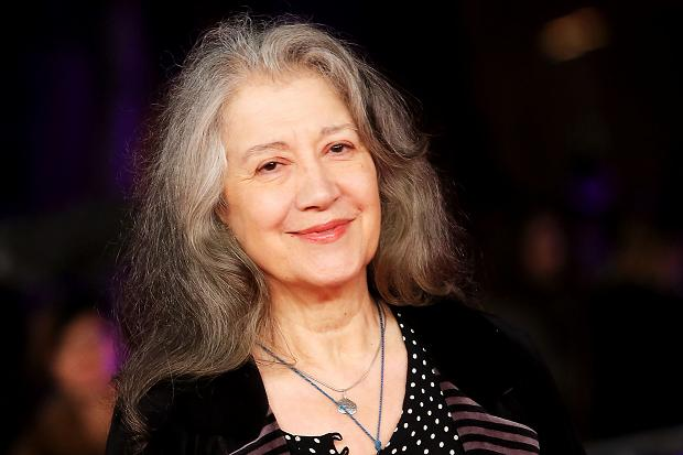 Argentine pianist Martha Argerich.